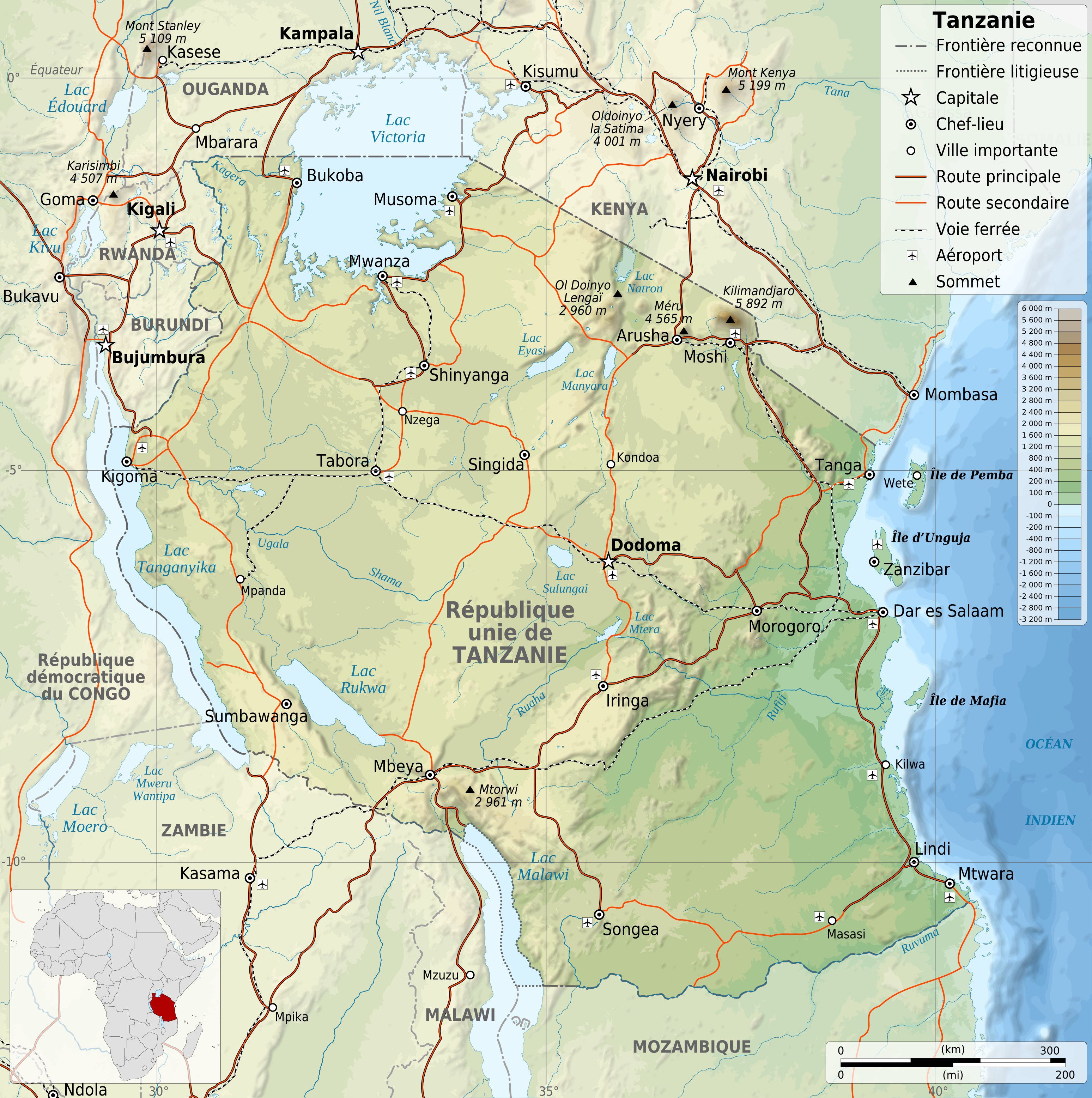 Map of Tanzania.